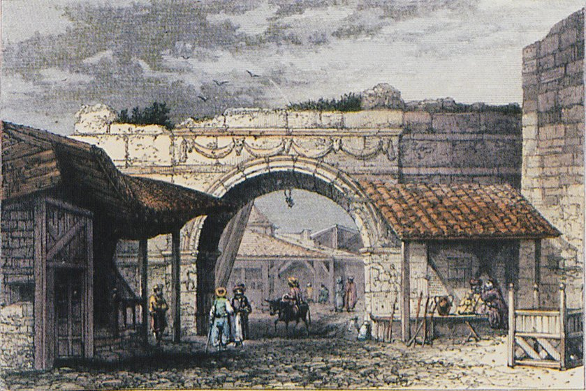 Golden Gate or Axios (Vardar) Gate in Thessaloniki, colour version, Esprit-Marie Cousinéry, based on the drawing by E. M. Cousinéry in Voyage dans la Macédoine, Paris, 1831